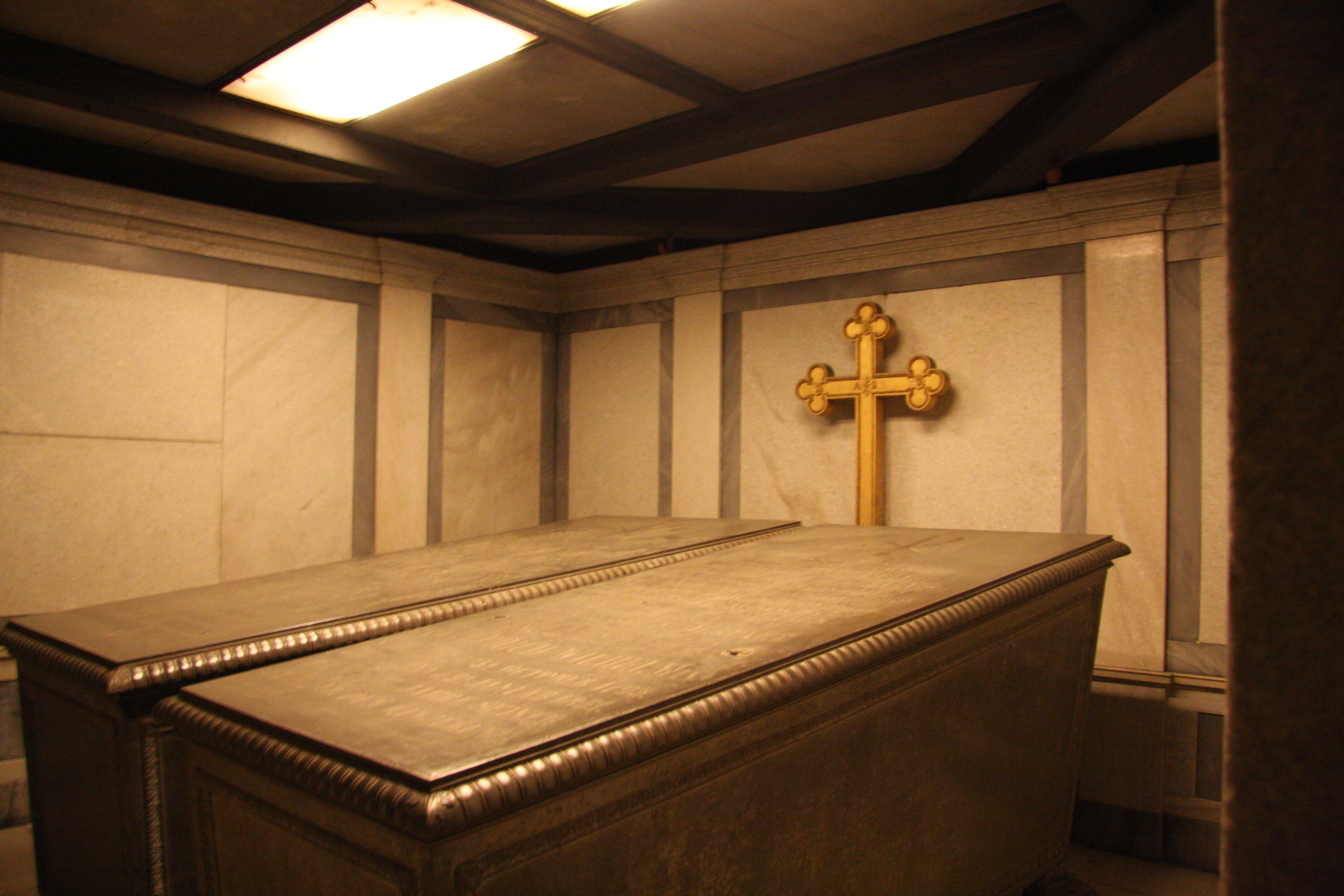 Picture of the crypt containing the Sarkophagi of Frederick William IV of Prussia and Elisabeth Ludovika of Bavaria in the Church of Peace, Sanssouci Park, in Potsdam